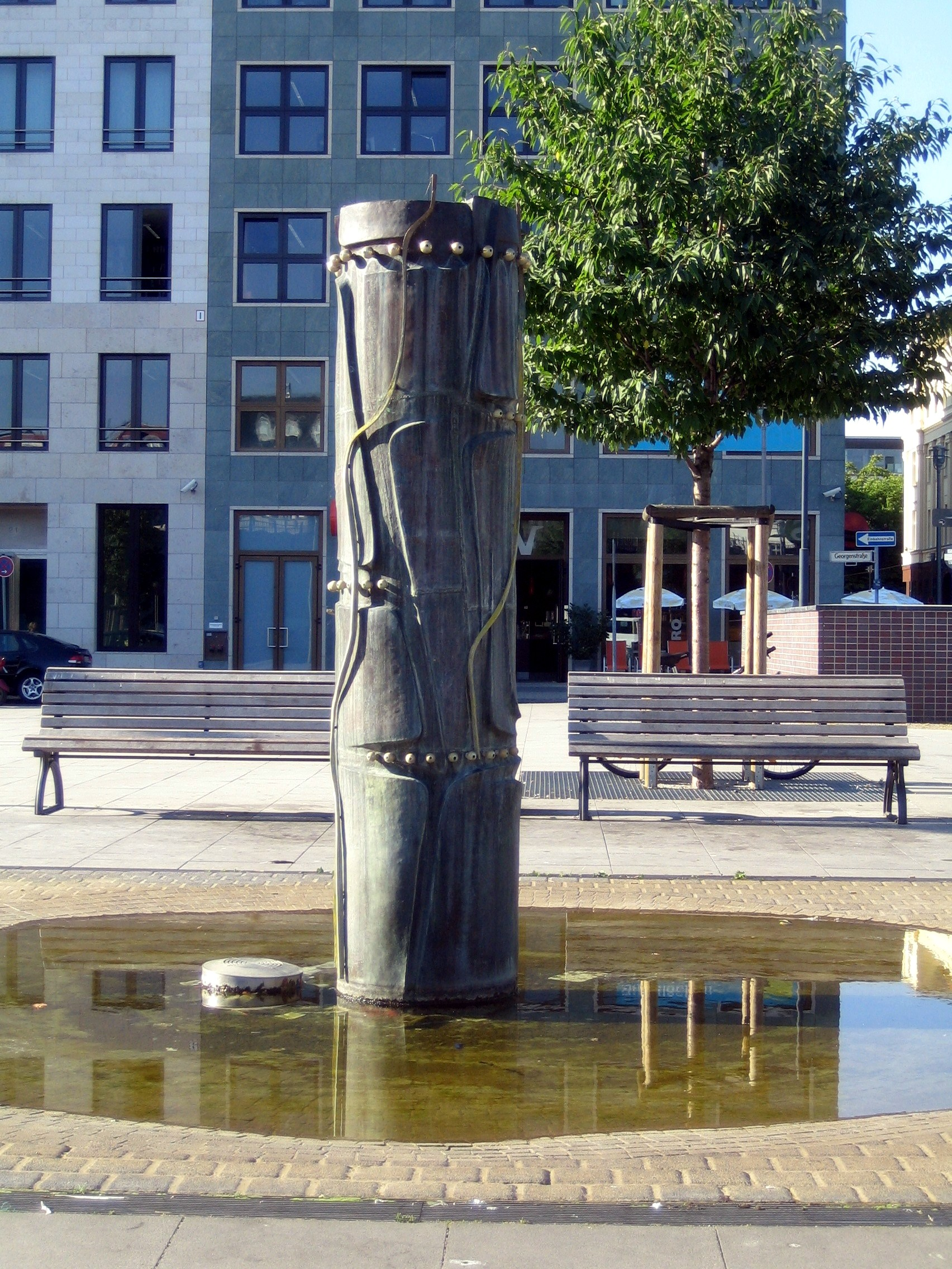 The fountain "Kleine Liebessäule" (little love-column), situated near metropolitan railway-station Friedrichstrasse in Berlin-Mitte (Germany). Built up in 1983. Design: Achim Kühn.